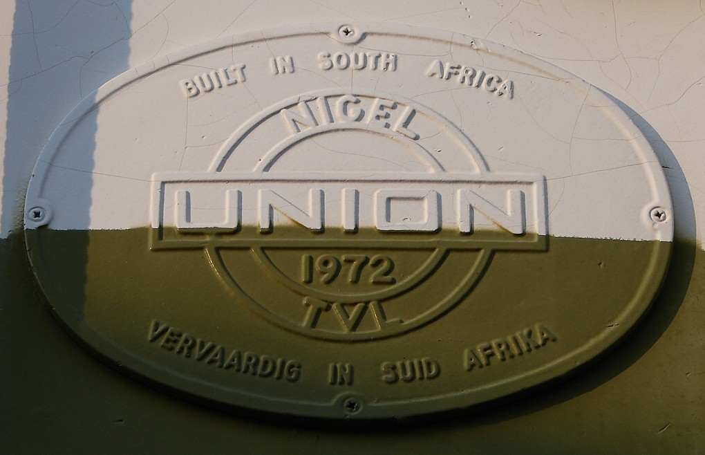 SAR Class 6E1 Series 3 E1328 builder's plateLocation: Sentrarand, Gauteng